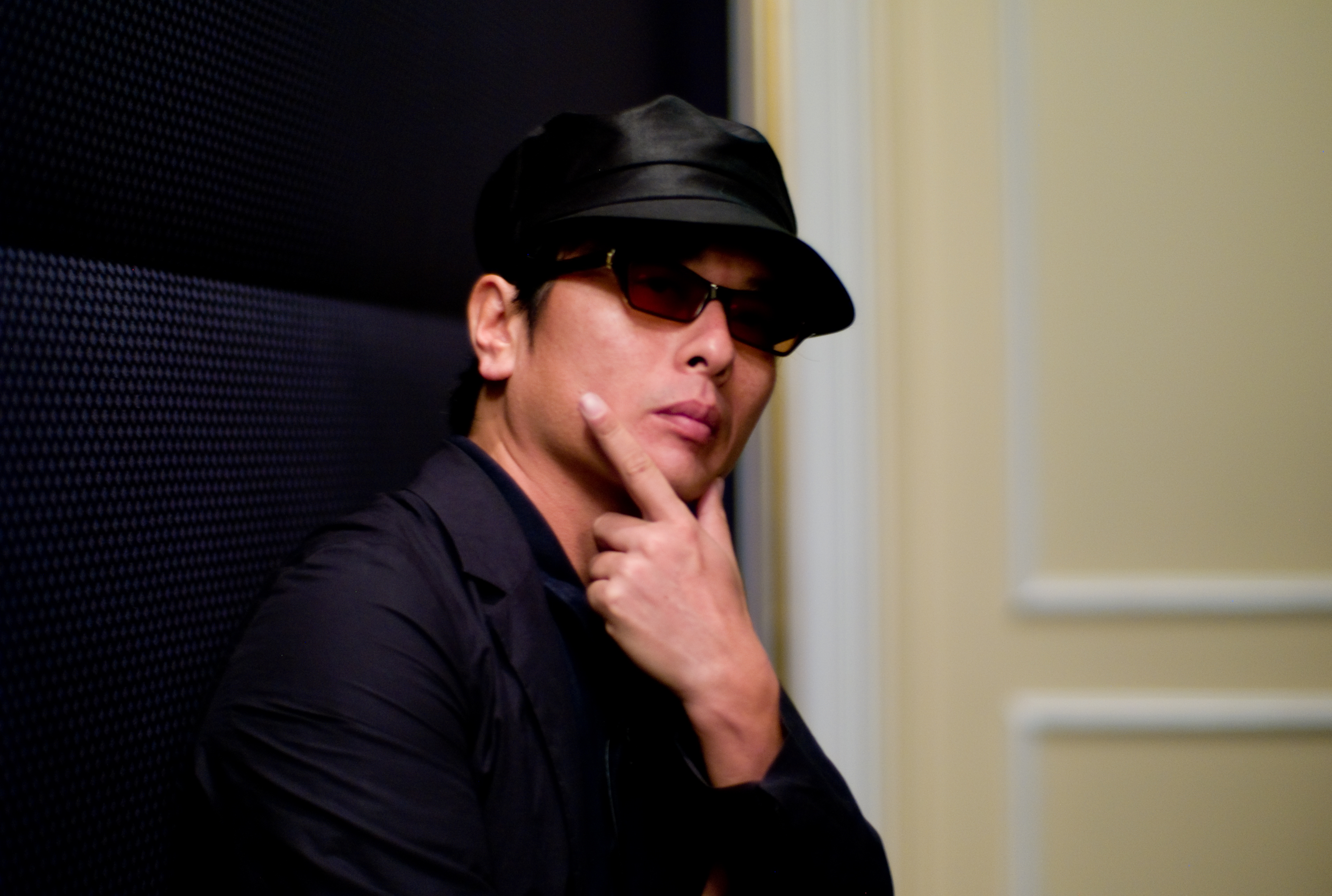 Towa Tei